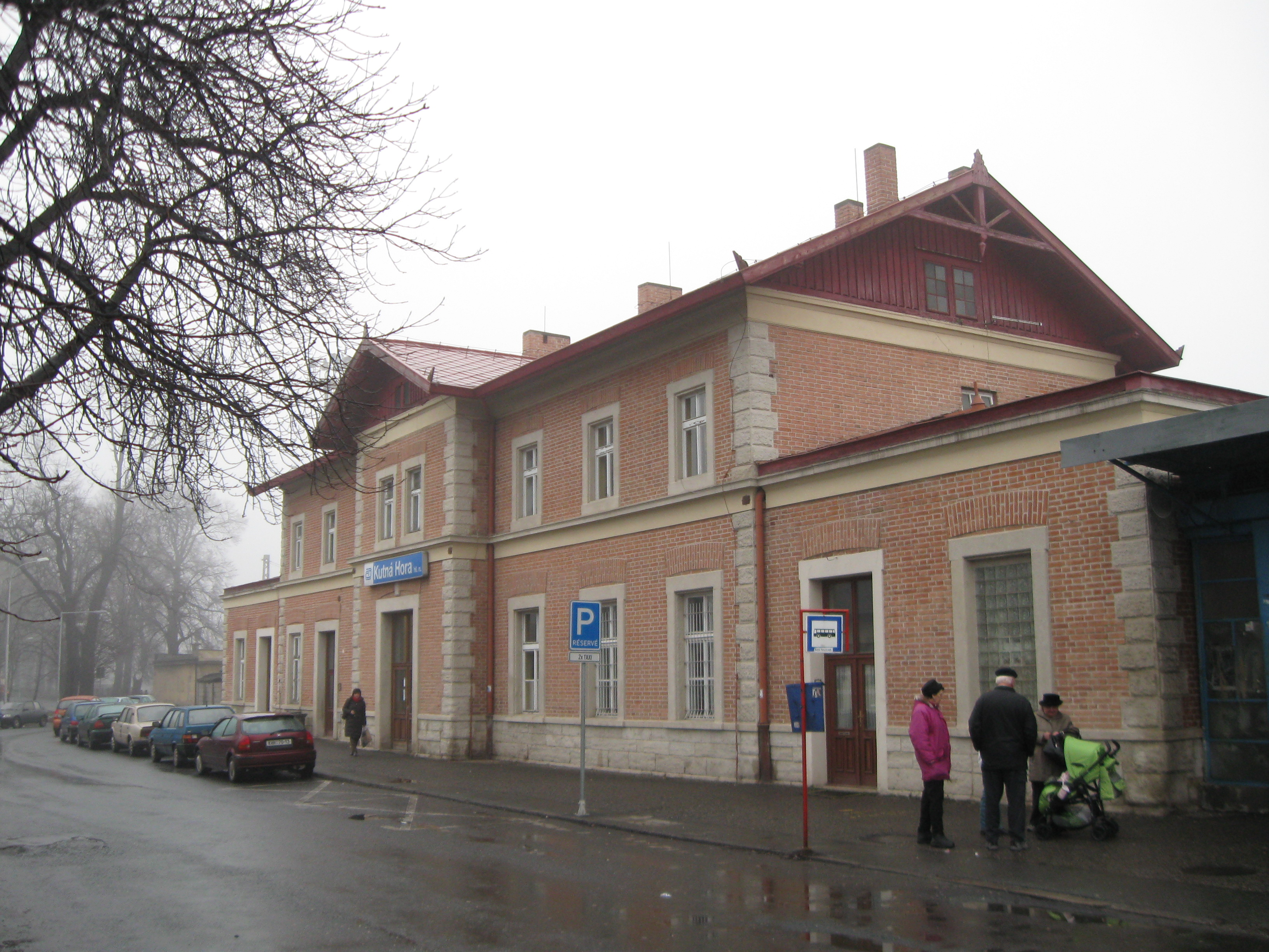 Kutná Hora main train station.